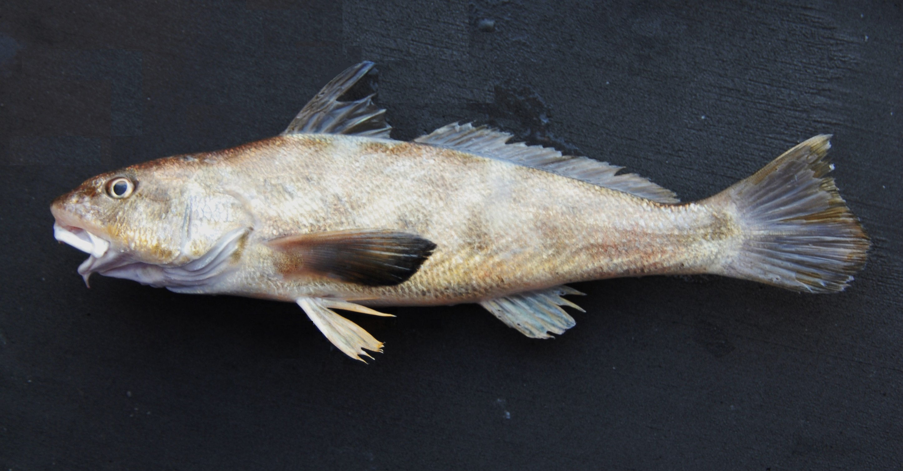 Menticirrhus americanus from the Gulf of Mexico